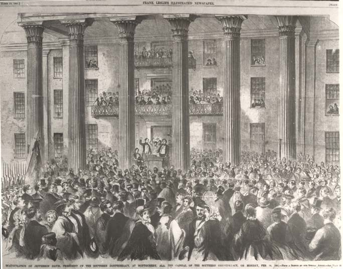 Inauguration of Jefferson Davis, president of the Southern Confederacy, at Montgomery, Ala., the capital of the Southern Confederacy, on Monday, Feb. 18, 1861.